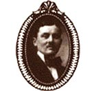 portrait of Monin